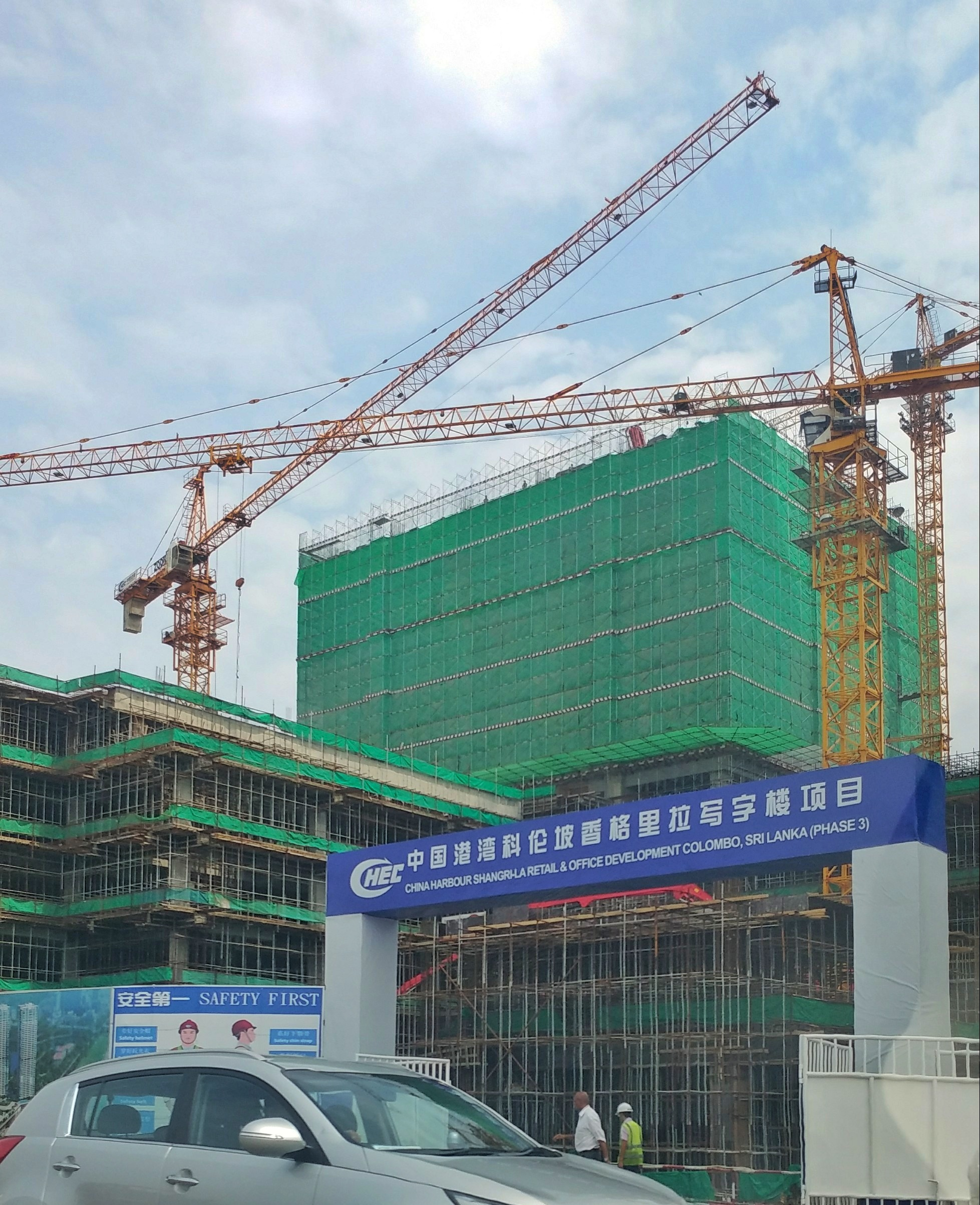 Construction progress of the retail section (mall) of the One Galle Face development in Colombo, Sri Lanka as at November 2017